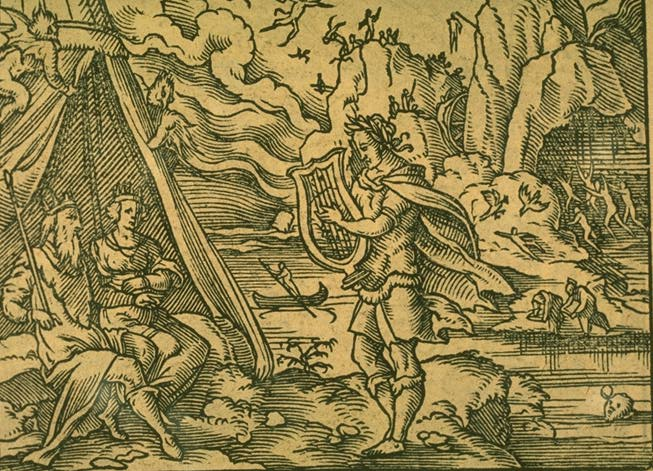 Orpheus in front of Pluto (Hades) and Proserpina (Persephone). Engraving by Virgil Solis for Ovid's Metamorphoses Book X, 11-52.